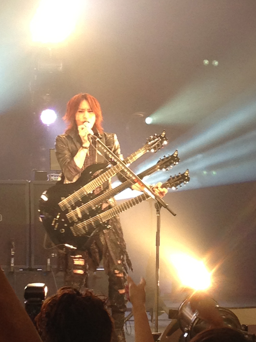 The image was taken by Chinnian on February 8, 2013, at the Luna Sea concert The End Of The Dream, Asian part of the tour, in Singapore.